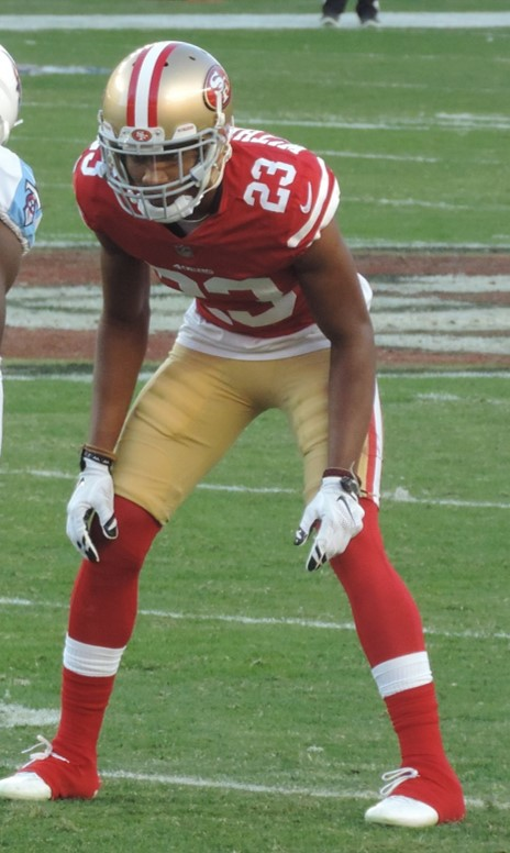 Ahkello Witherspoon with 49ers in 2017